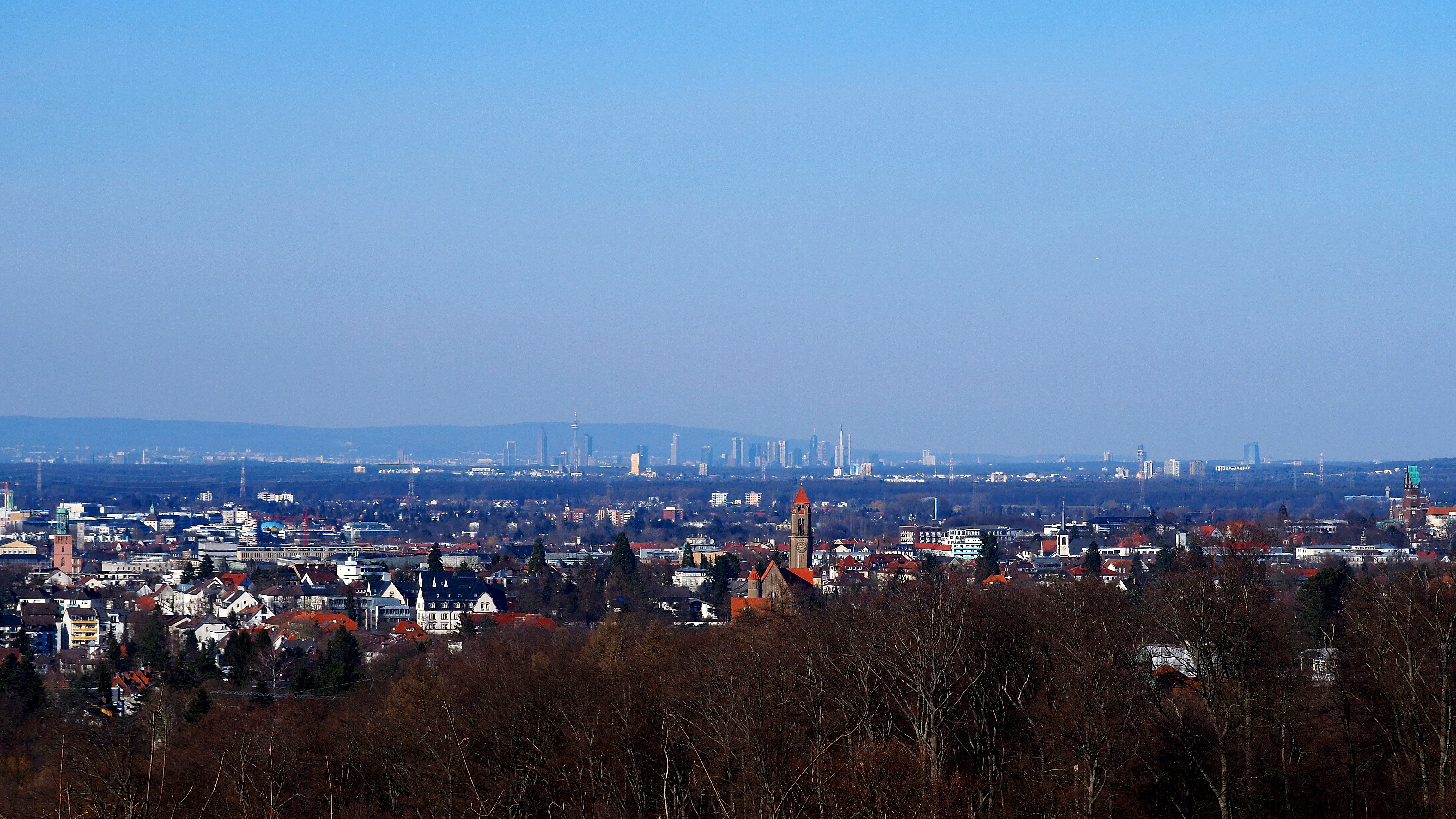 View across Darmstadt towards Frankfurt from Ludwigshoehe